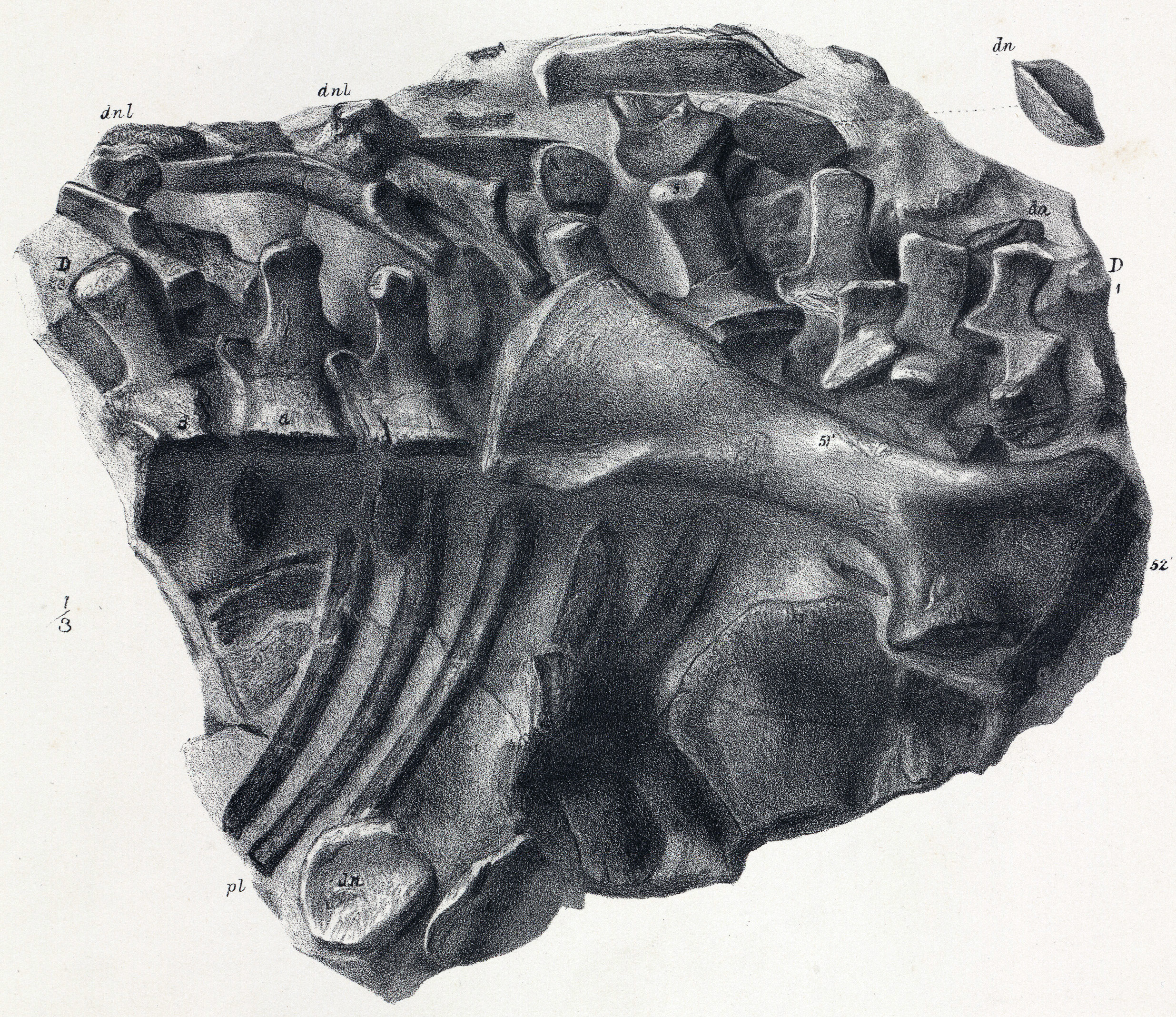 Scelidosaurus Harrisonii. Fig. 1. Side view of part of the thorax, with the scapula. Fig. 2. A dermal ossicle from the same part of the skeleton. One third the natural size.